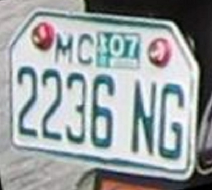 Registration plate of motorcycles, Philippines